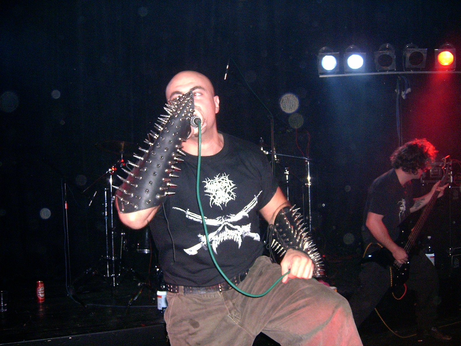 Vital Remains - death metal band